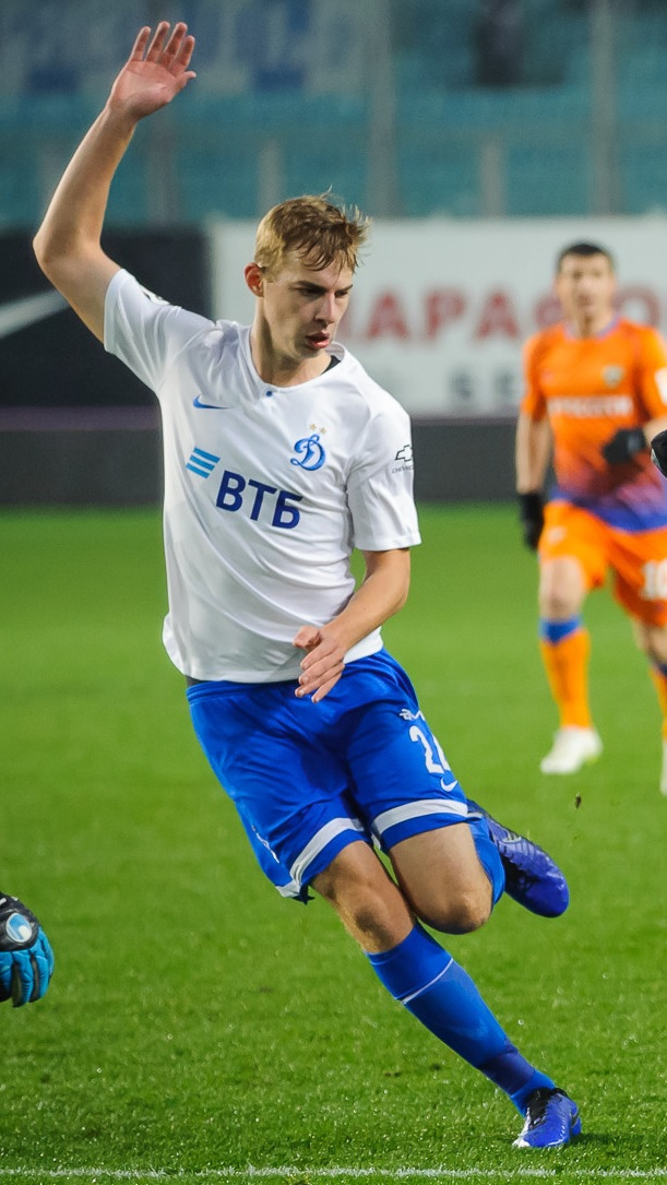 Roman Yevgenyev with FC Dynamo Moscow in a game against PFC CSKA Moscow.